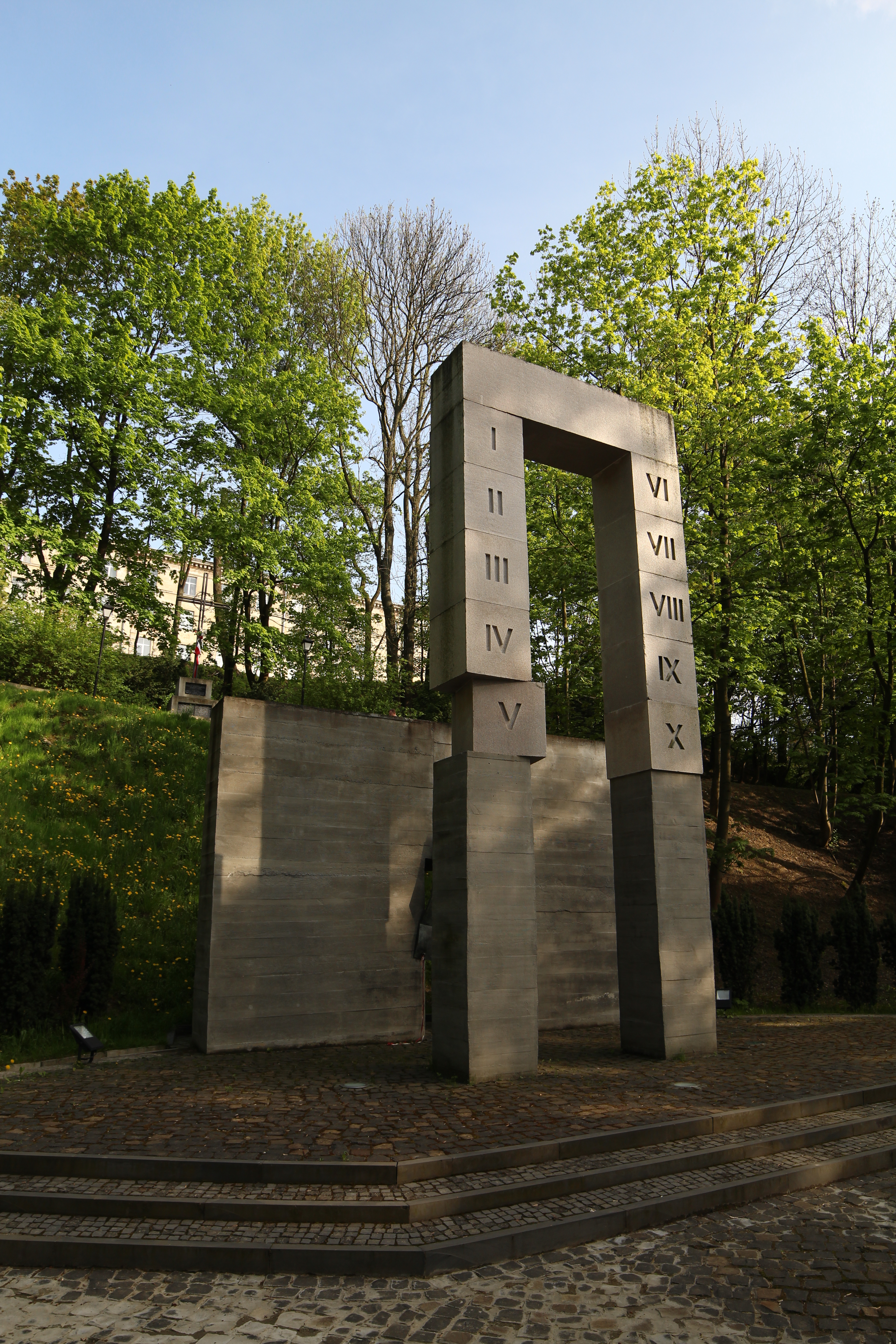 The monument at the place of execution of Lwów Professors at Wuleckie Hills, unveiled on 3 July 2011.